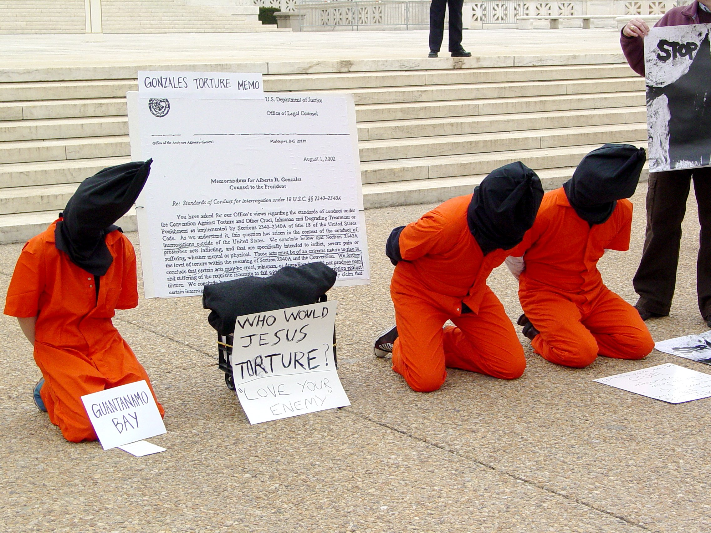 Street theatre in front of the Supreme Court by DAWN opposing the confirmation of Alberto Gonzales on February 9, 2005.